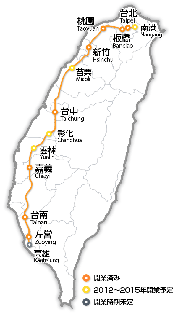 Taiwan High Speed Rail Route Map in Japanese